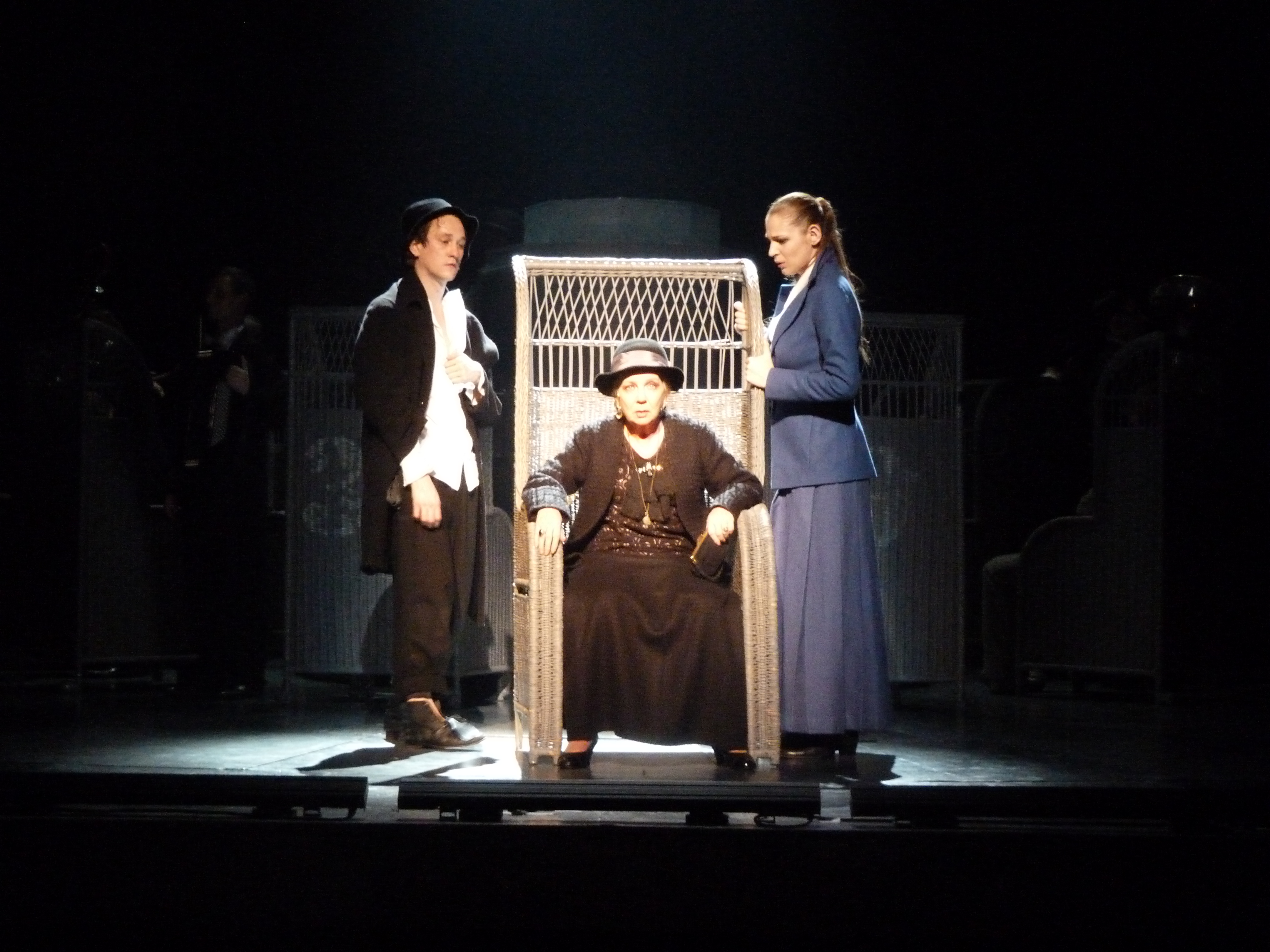 I. Madách International Theatre Meeting (MITEM) – 2014.03.26 From Dostoyevsky: The Gamble. Nemzeti Színház, Budapest, Hungary. Anton Shagin, Alexander Polamishev, Polina-Alexandra Bolshakova, Igor Volkov, Alexander Lushin, Sergey Parsin, Maria Lugovaya, Sergey Yelikov, Vasilisa Alexeyeva, Maria Zimina, Elena Vozhakina, Ivan Yefremov, Victor Shuralev, Ziganshina Era, Yushiran Meshchanov, Sergey Sidorenko, Igor Kroll, Kirill Zamyshlayev. Live on the first day of the Madách International Theatre Meeting. MITEM is not a competition. The goal of this gathering is is to develop a long-term and creative relationship among the theatres of Central Europe, our Paradise Lost. Zero Liturgy Tags: Vidnyánszky Attila Nemzeti Színház MITEM I. Madách Nemzetközi Színházi Találkozó 2014-03-26 Budapest 2014 Zero Liturgy Dostoyevsky The Gamble Sources: Vidnyánszky Attila: Hagyomány – korszerűség – nemzetköziség Nemzeti 2014. január. Hamarosan kezdődik a MITEM fesztivál Alexandrinsky Theatre ©© Derzsi Elekes Andor, Budapest, 2014, You are authorised to use these photos and vids under Creative Commons – even for commercial, for profit purposes. Photos must be attributed to Derzsi Elekes Andor. All of the photos and vids in the Metapolisz DVD line are under Creative Commons and can be used even for commercial – for profit – purposes. Recommended Citation Derzsi Elekes Andor: Metapolisz DVD line